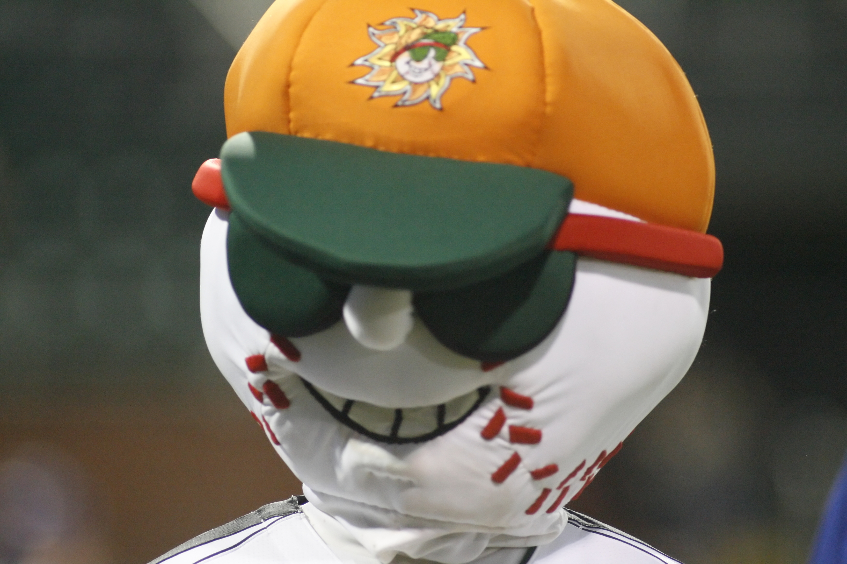 Deland Suns Mascot